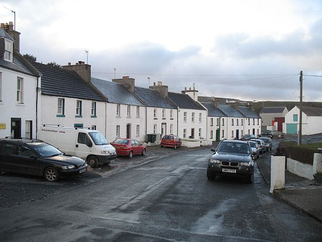 Port Charlotte